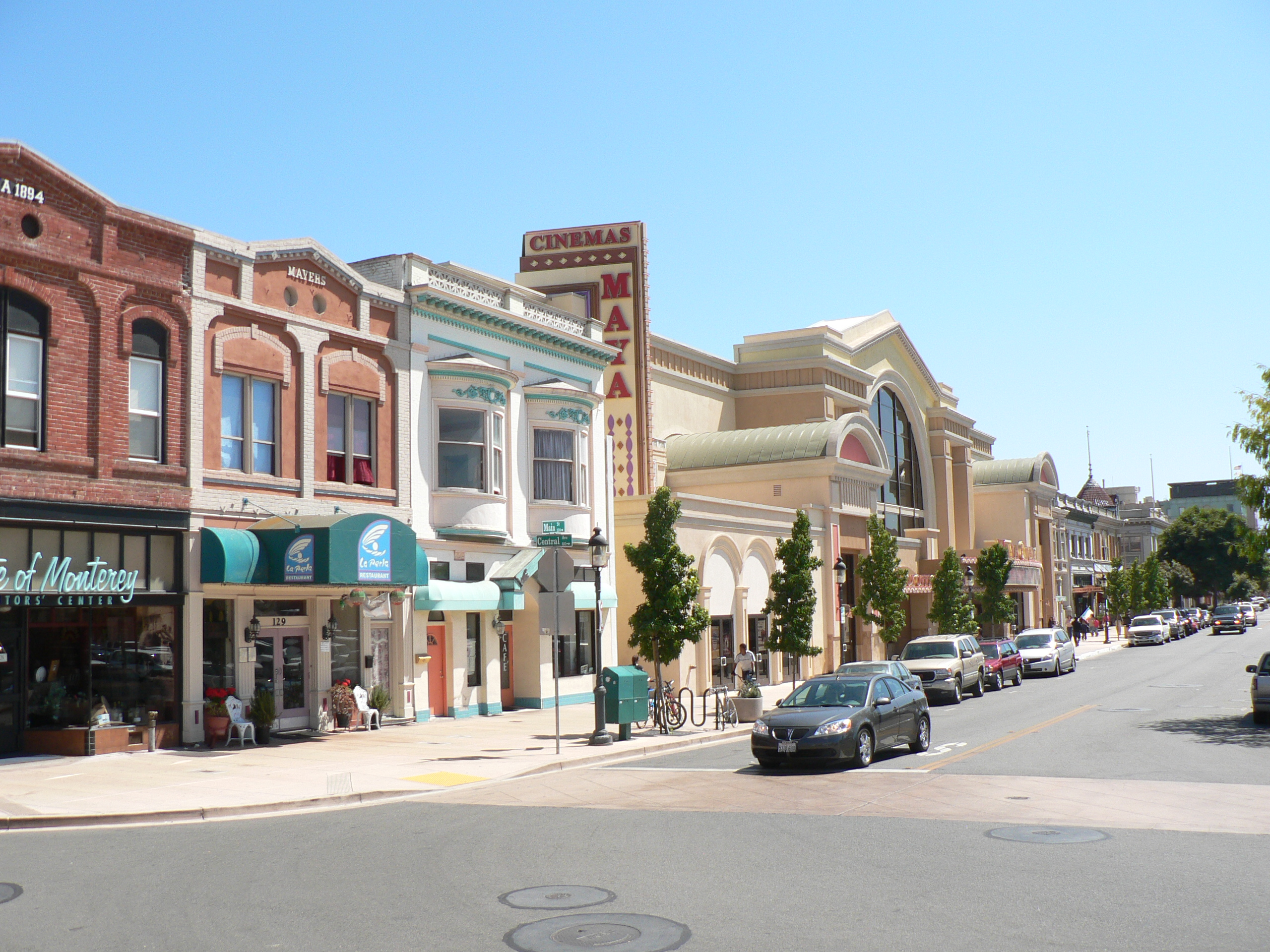 The following is the author's description of the photograph quoted directly from the photograph's Flickr page. "Featured in several of Steinbeck's novels. The Center is at the end of this street. "